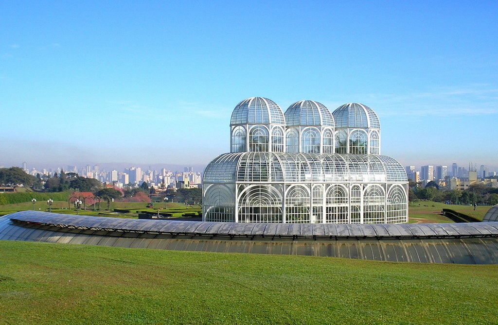 Botanical garden Of Curitiba, Paraná state, southern Brazil.